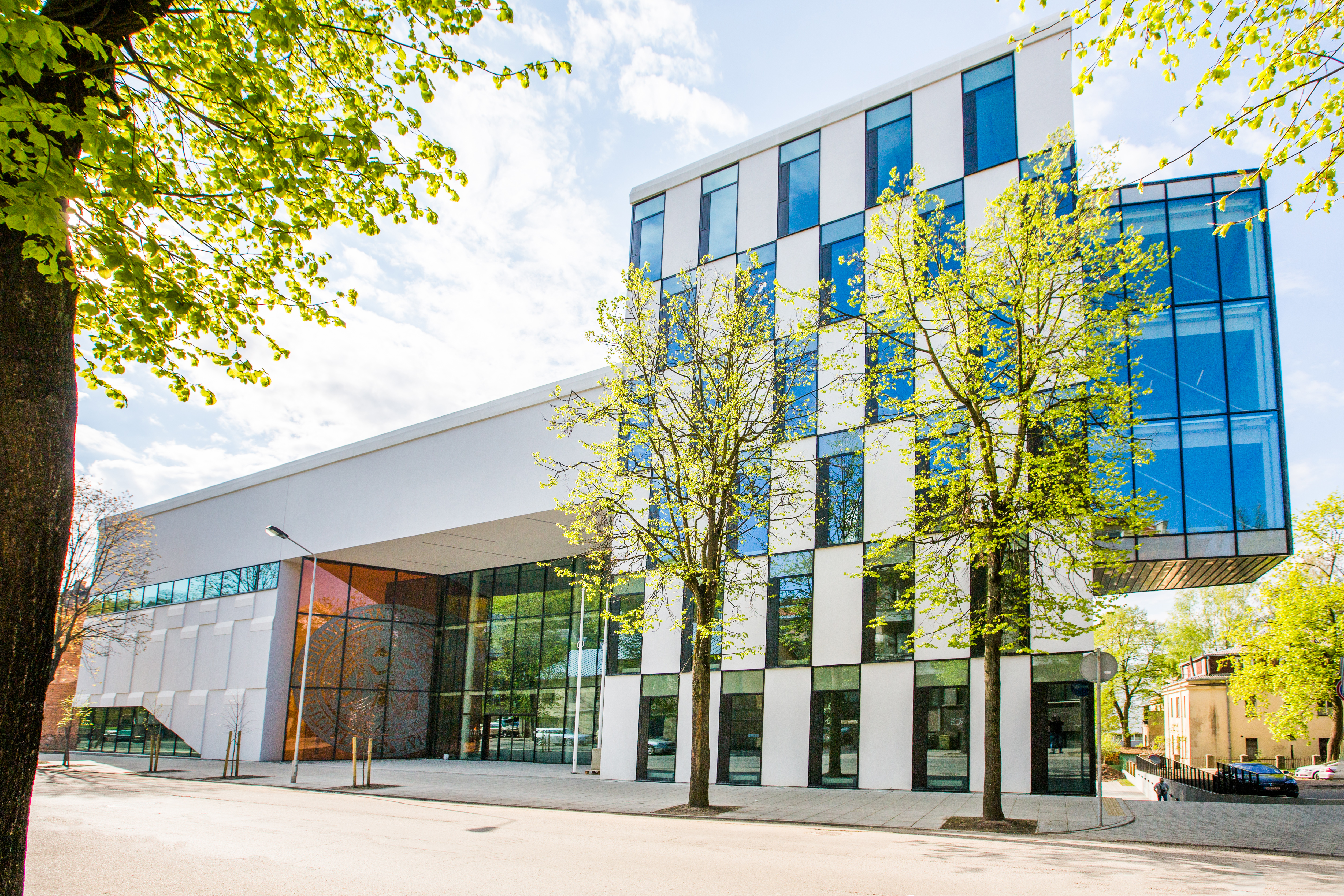 Vytautas Magnus University, Centre for Research and Studies, Kaunas, Lithuania.